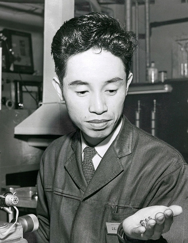 Japanese physicist Reona Esaki of Sony displays the 'Esaki Diode' on December 29, 1959, in Tokyo, Japan